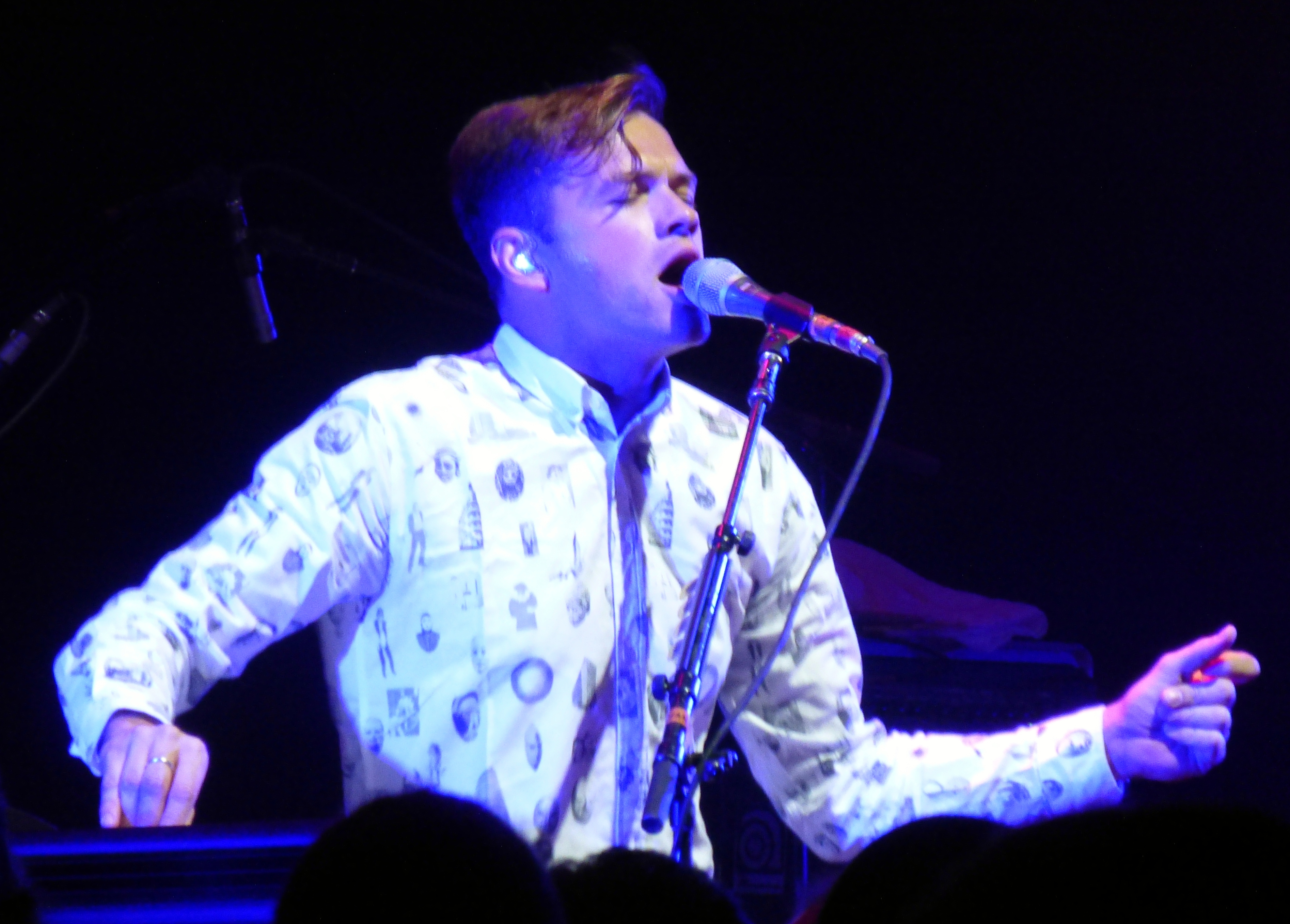 Jean-Philip Grobler, stage name St. Lucia, at the Fillmore, Detroit, 5/15/14